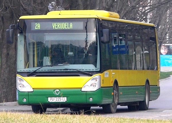 A Pulapromet bus